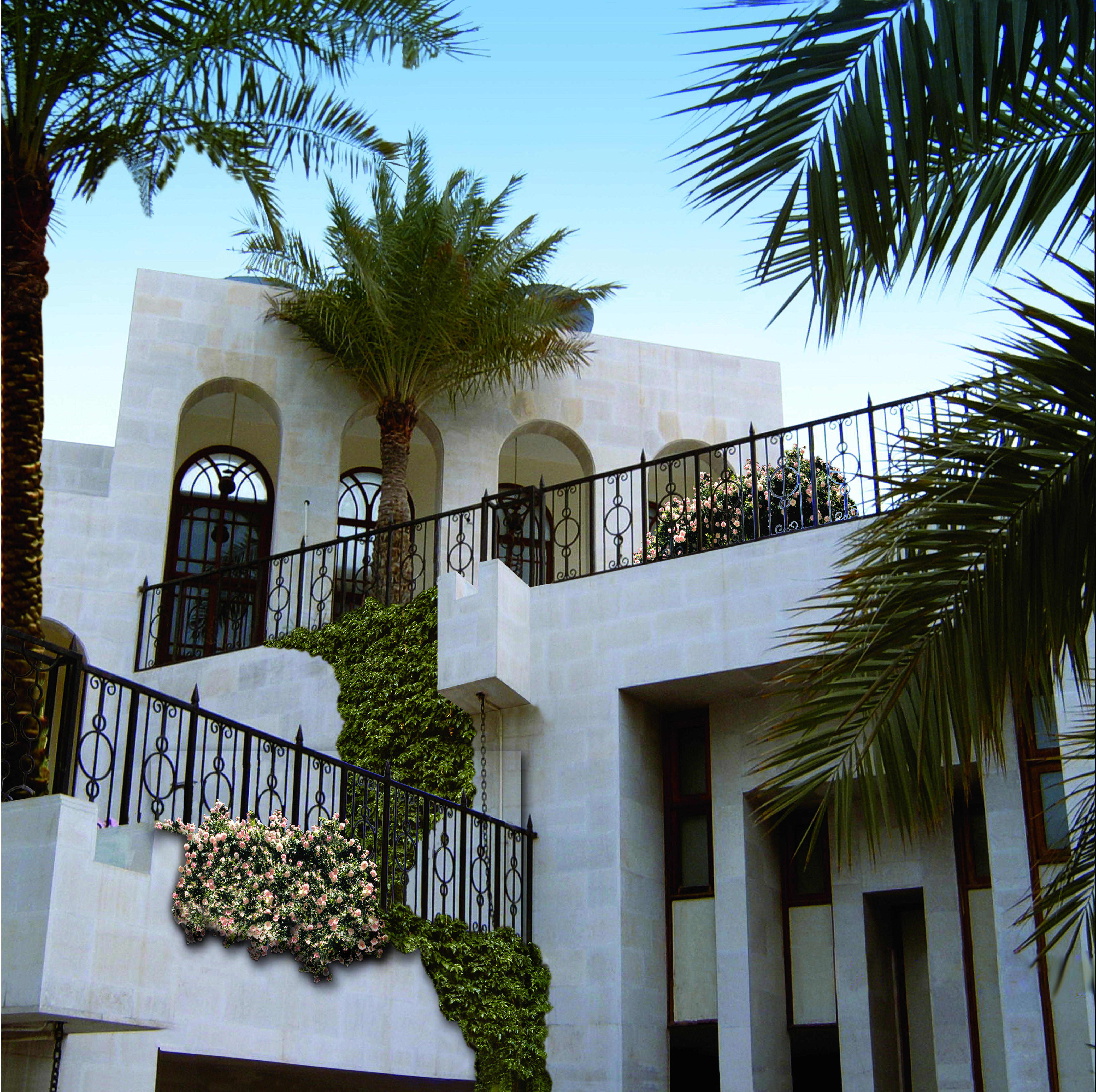 'Hanging Garden' residence in Kuwait designed by Dr. Basil Al Bayati in 1979